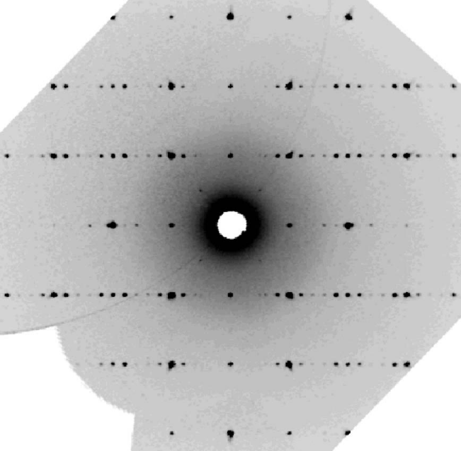 Example of a reconstructed thin slice of the X-ray diffraction pattern of a crystal in the reciprocal space. The spots show the reflections, the gray scale indicates the intensities (black for the highest intensity and gray for the background, white is not measured).